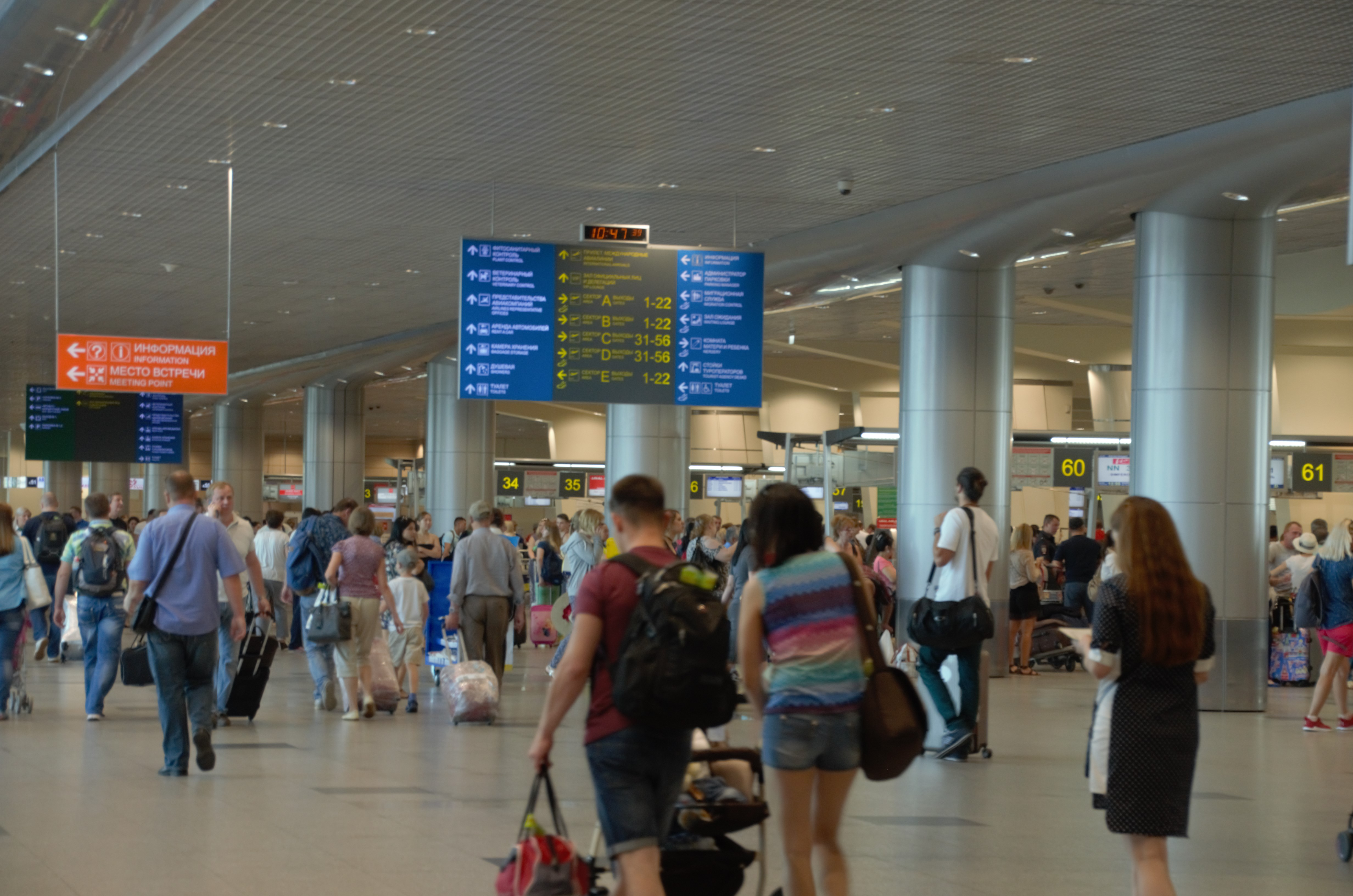 Domodedovo Airport, Moscow Oblast